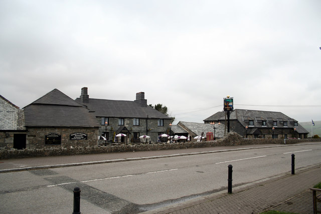 Jamaica Inn